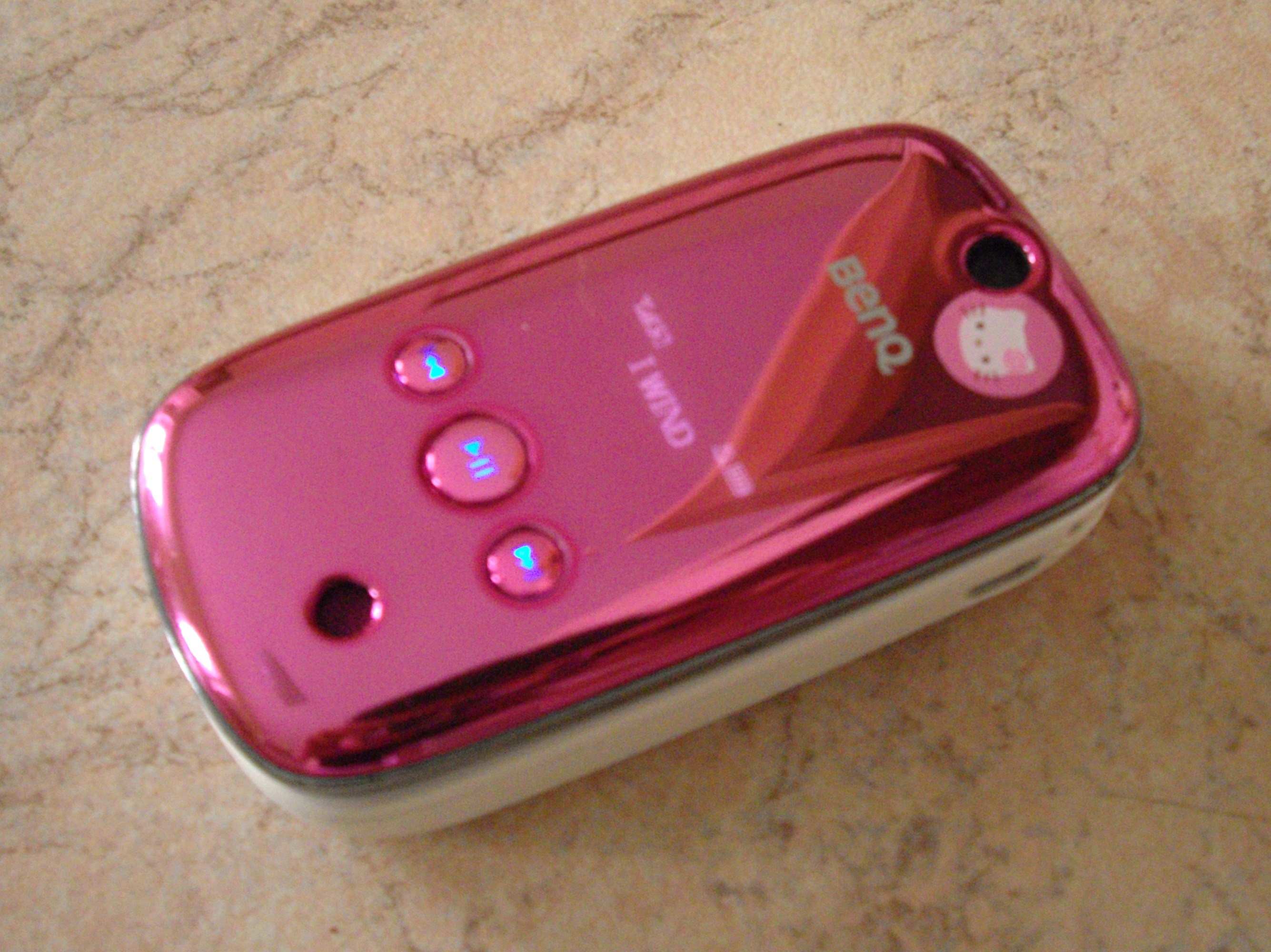 BenQ T51 Hello Kitty